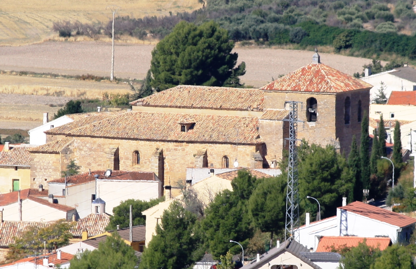 St Andrew's Church, in Albalate de Zorita, Guadalajara, Spain.